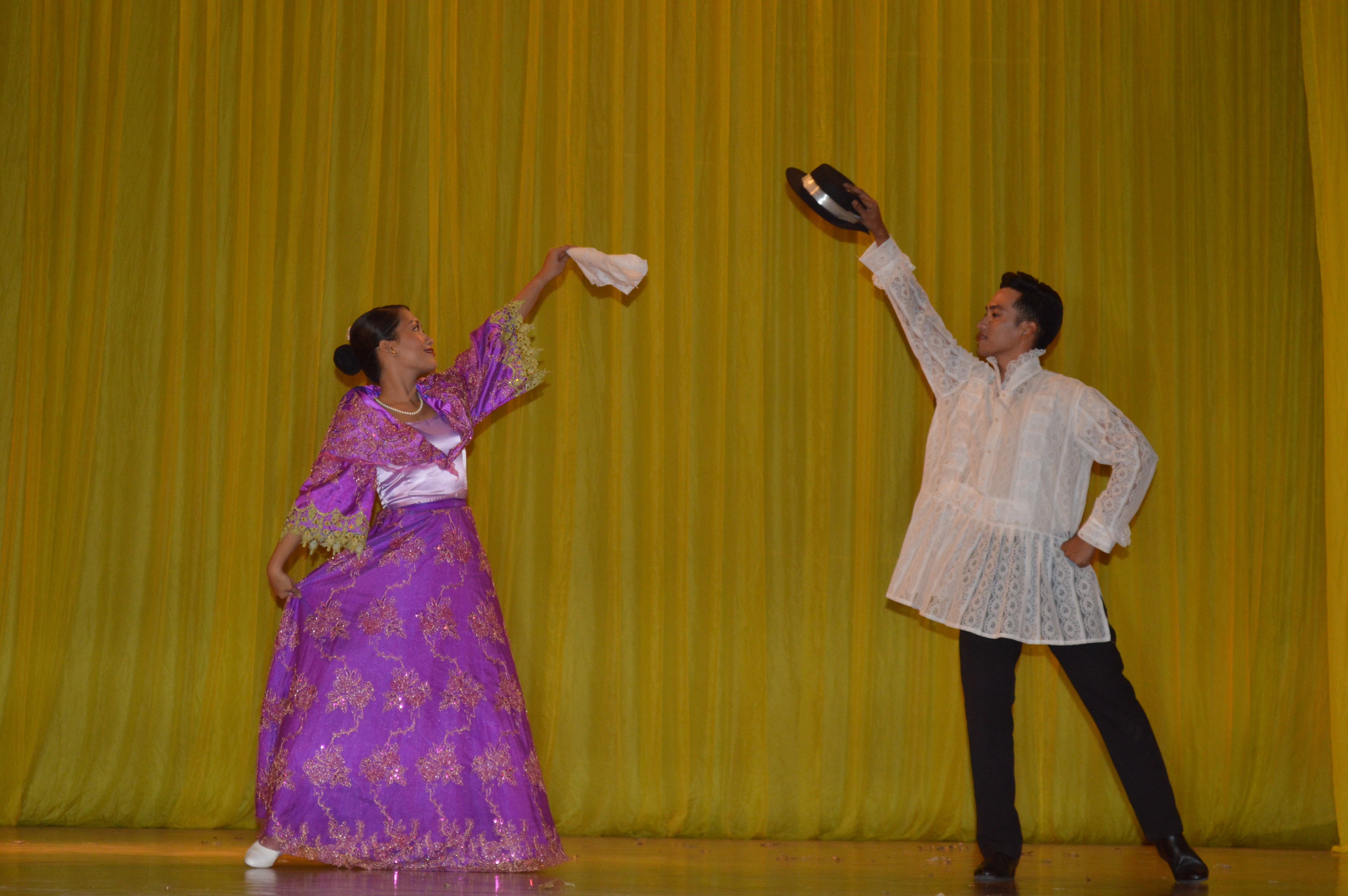 This is an image from Egypt